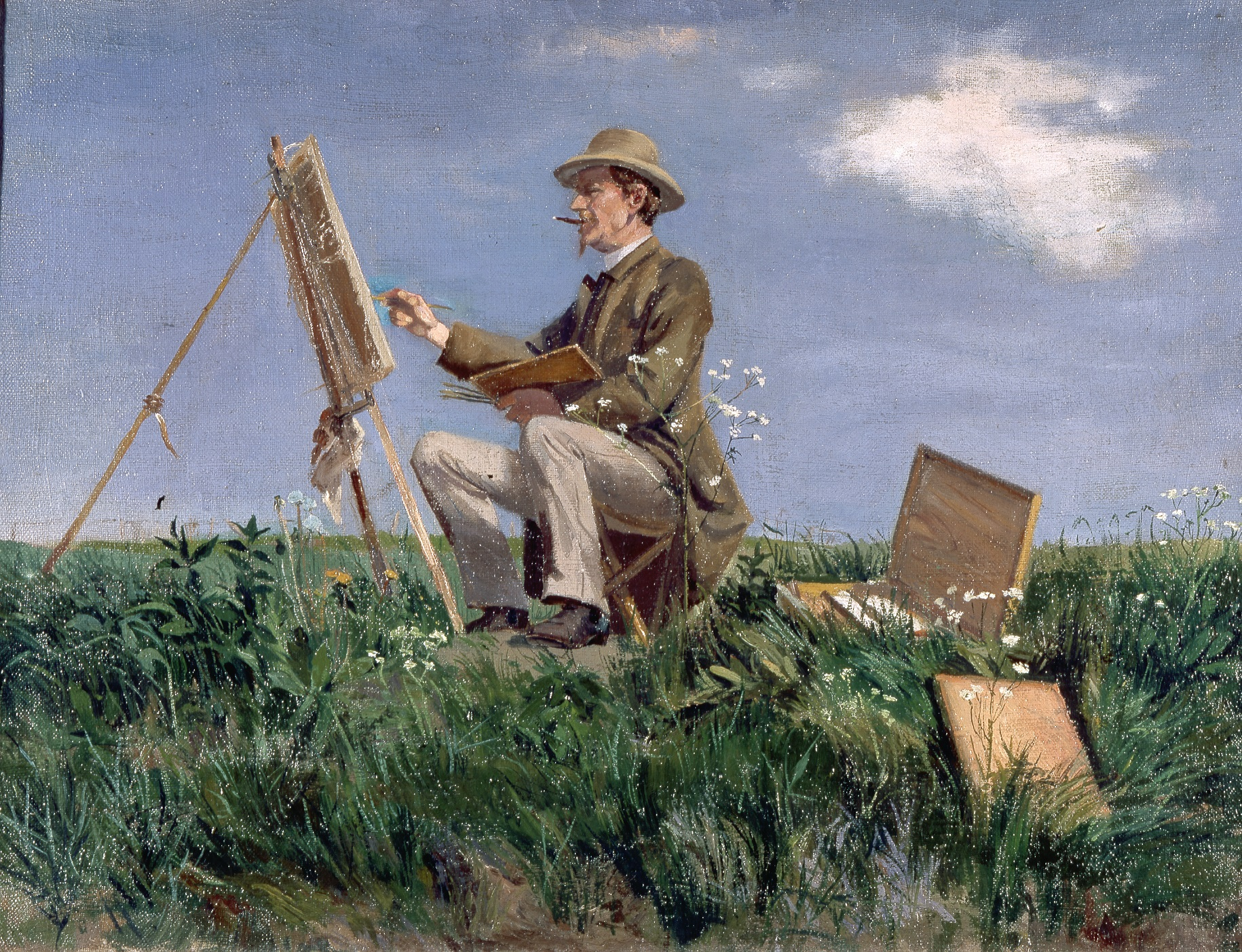 Wilhelm Dreesen oil on canvas 45 x 60 cm 1893